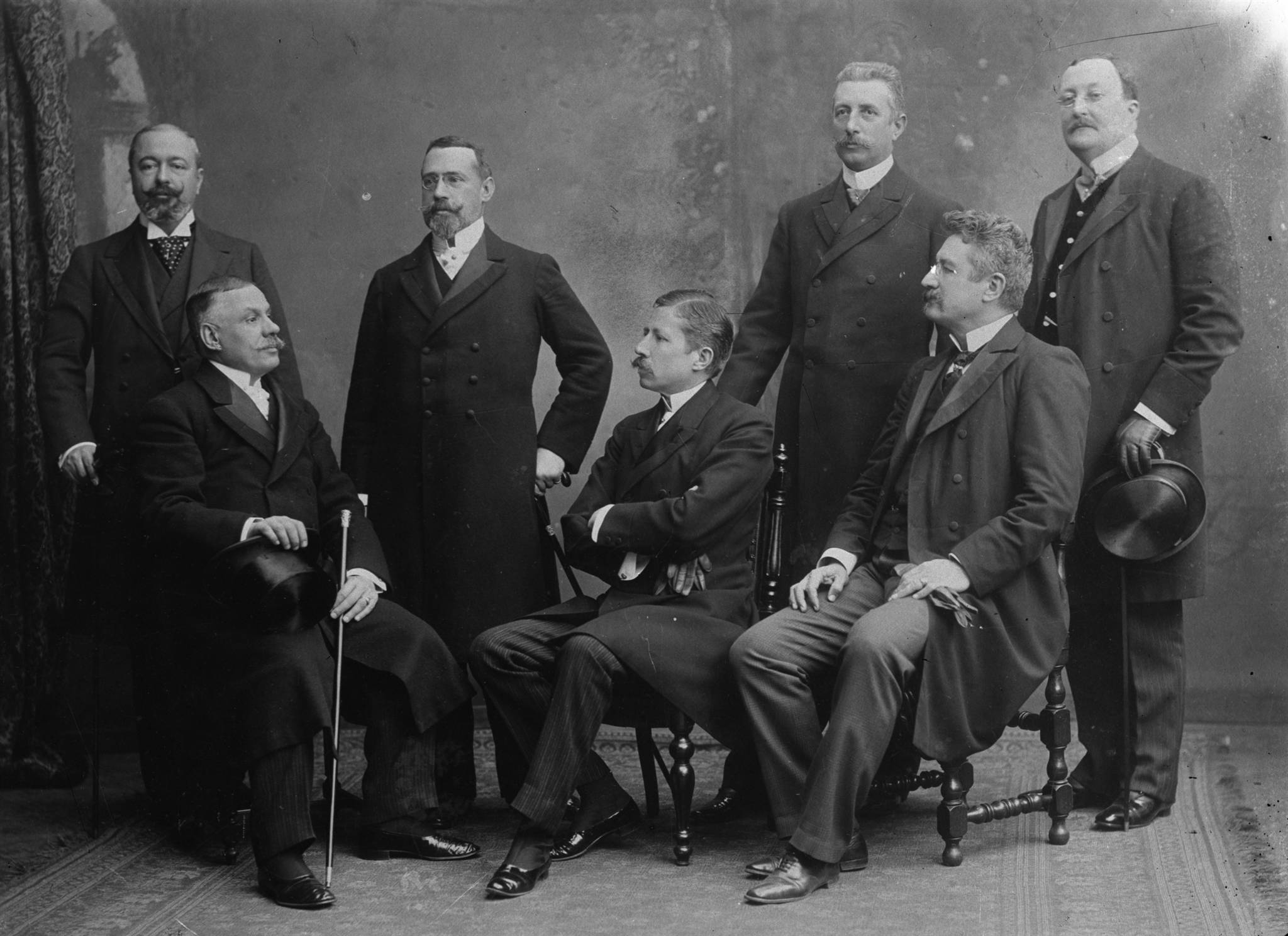 The Portuguese cabinet, with Prime-Minister João Franco (centre), 1906.